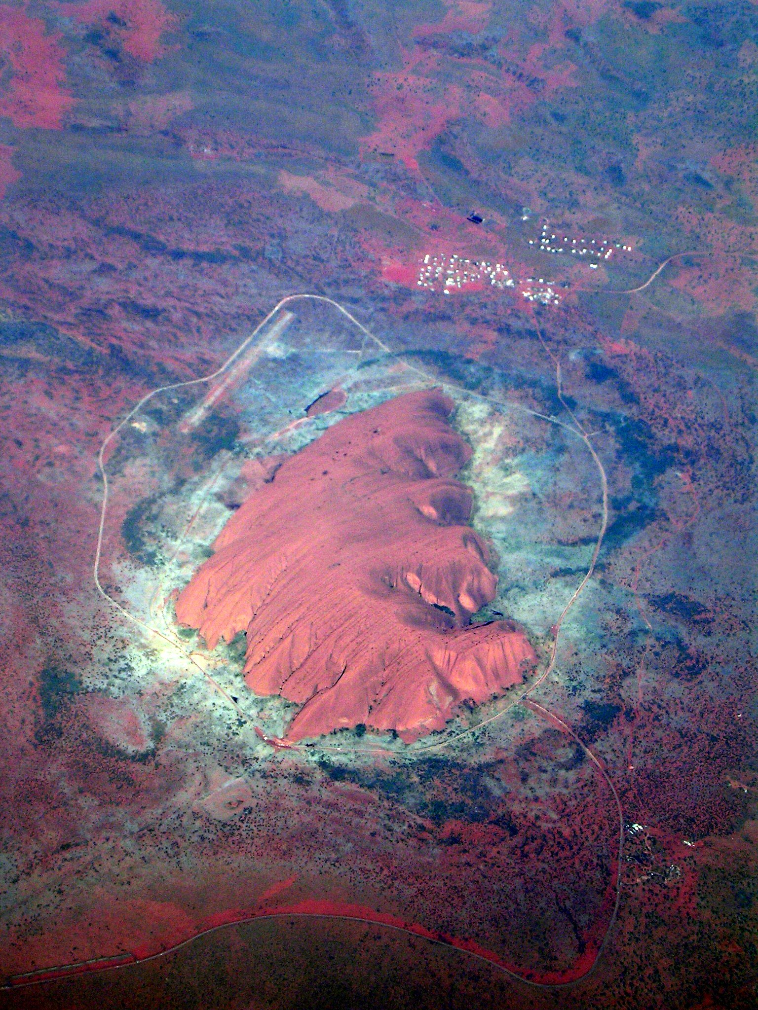 Aerial view of Uluru (Ayers Rock), Australia